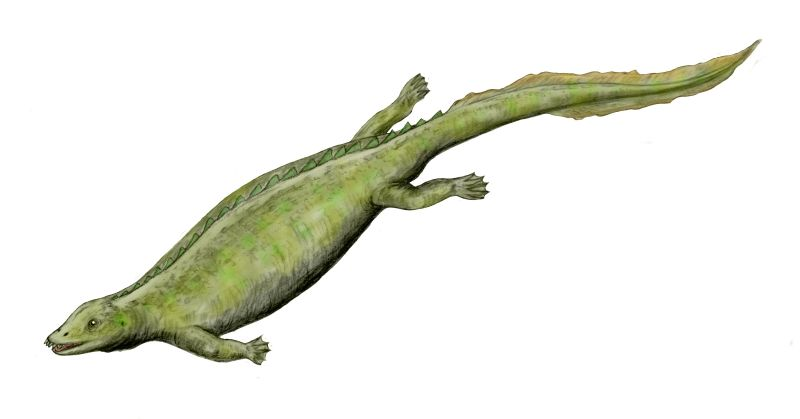 Paraplacodus broili, a placodont from the Middle Triassic of Northern Italy, pencil drawing